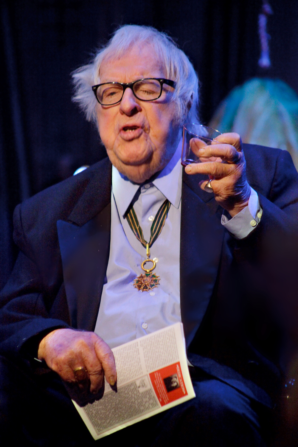 Ray Bradbury, wearing the medal of a Commander of the Ordre des Arts et des Lettres in 2009.